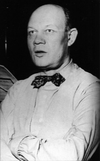 Photograph of the Finnish composer Ahti E. Karjalainen (1907–1986).